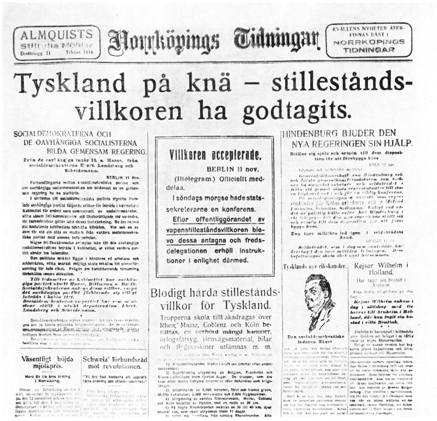 Daily newspaper Norrköpings Tidningar in 1918